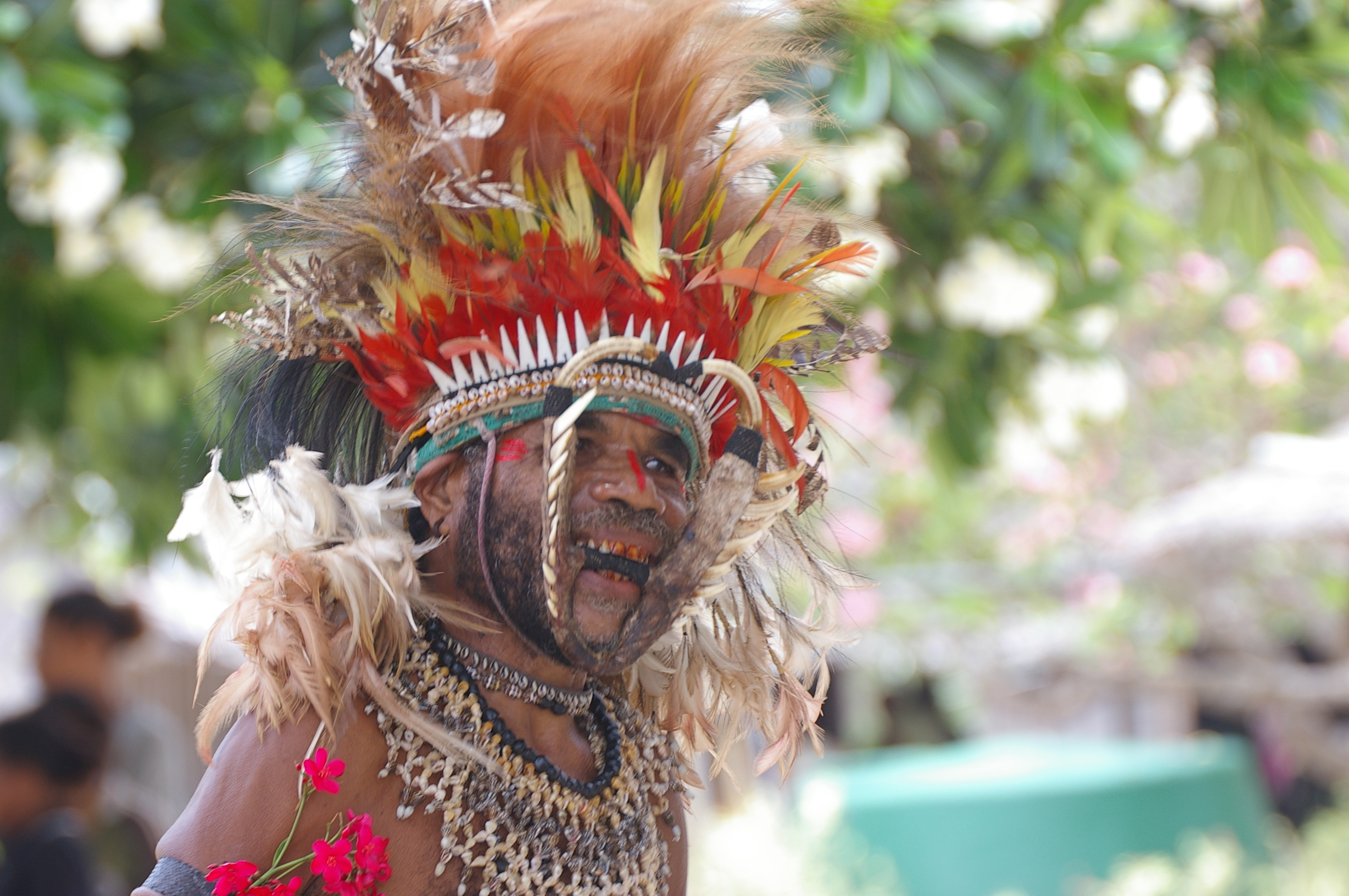 A Papua New Guinean wearing traditional garb. Taken in Boga-Boga, Papua New Guinea in 2005, by Jon Radoff; photographic gear was a Pentax istDS with a 400mm zoom lens.